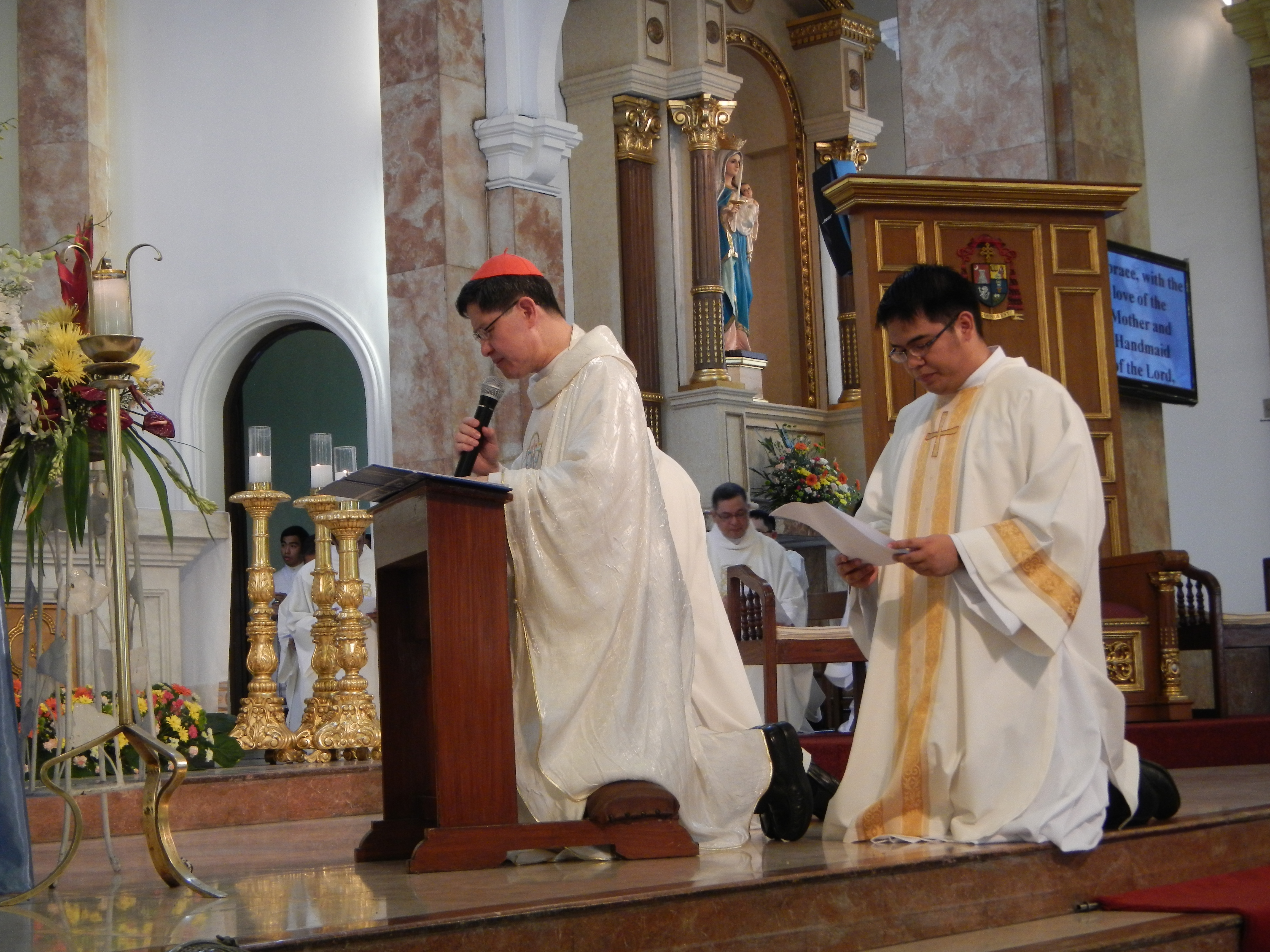 Photos of the First in Philippine History, landmark, historical and momentous: National Consecration to the Immaculate Heart of Mary, 8 June 2013 Consecration to the Immaculate Heart of Mary 8 June 2013 [1] Cardinal Tagle: No corruption in a country entrusted to MaryCardinal Tagle: No corruption in a country entrusted to MaryTagle leads prayer vs corruption, lifts PH to Mary’s heart Saturday, June 8th, 2013 [2] CBCP Circular Letter No. 01 – s. 2013: Celebration of the National Consecration to the Immaculate Heart of Mary on June 8, 2013.[3] + JOSE S. PALMA, D.D.[4] - "Bayang Sumisinta Kay Maria" ‘Act of Consecration to Mary,’ Marian recollection on June 8 June 2nd, 2013 Observance: Consecration of the Philippines to the Immaculate Heart of Mary Consecration to the Immaculate Heart of Mary June 8, 2013 [5] [6] THE Act of Consecration to the Immaculate Heart of Mary will be held in all the cathedrals, shrines, and parishes all over the country at 10 a.m June 8, 20123. Tagle, may panawagan sa mga Pilipino The National Consecration of the Philippines and the Catholic Faithful to the Immaculate Heart of Mary as "Isang Bayang Sumisinta kay Maria" (Pueblo Amante de Maria) took place on June 8, 2013, the Feast of the Immaculate Heart of Mary. It was led by Luis Antonio Tagle[7] (Latin: Aloysius Antonius Tagle